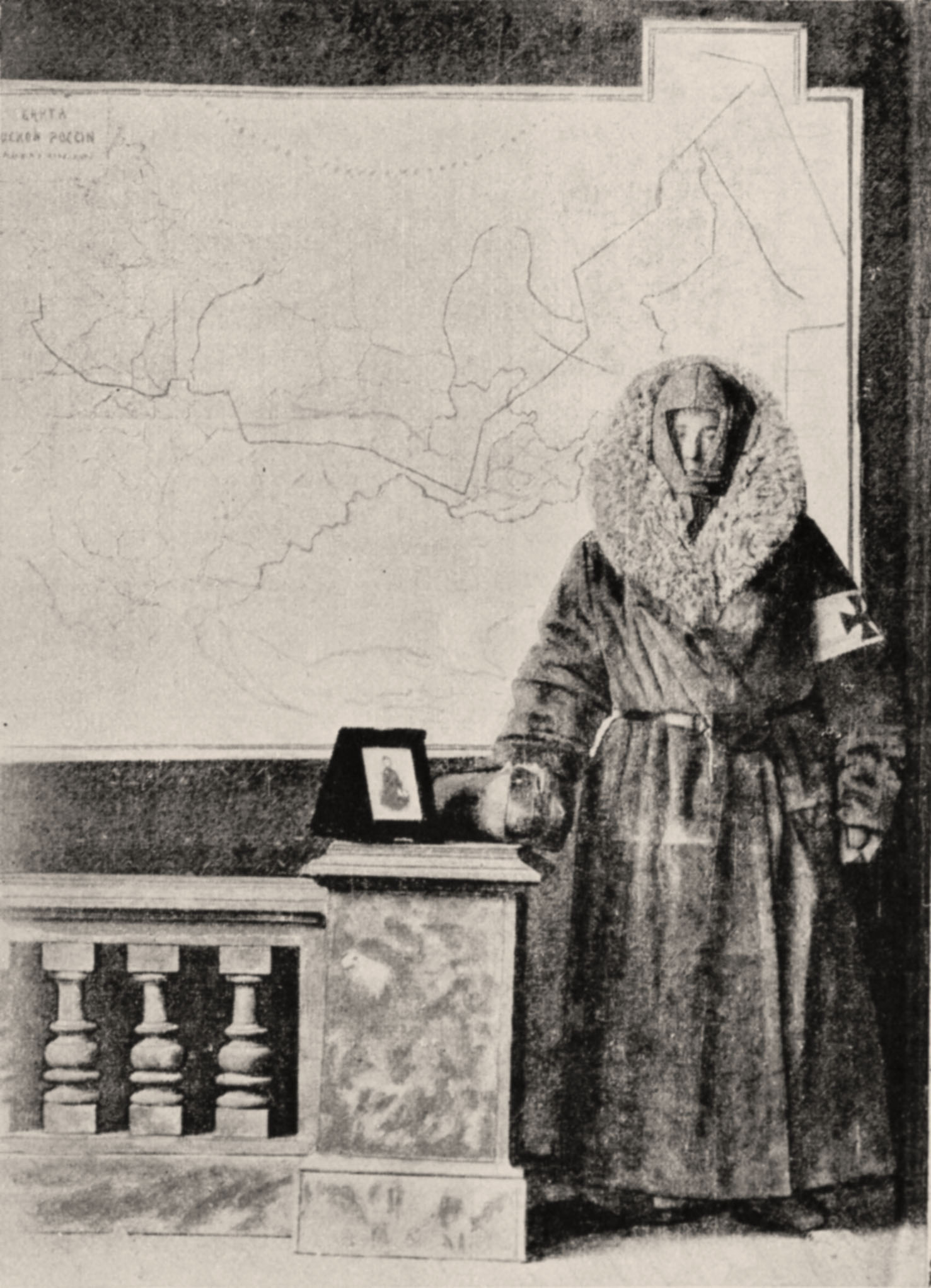 Kate Marsden in full travelling dress with a map of her route through Siberia.